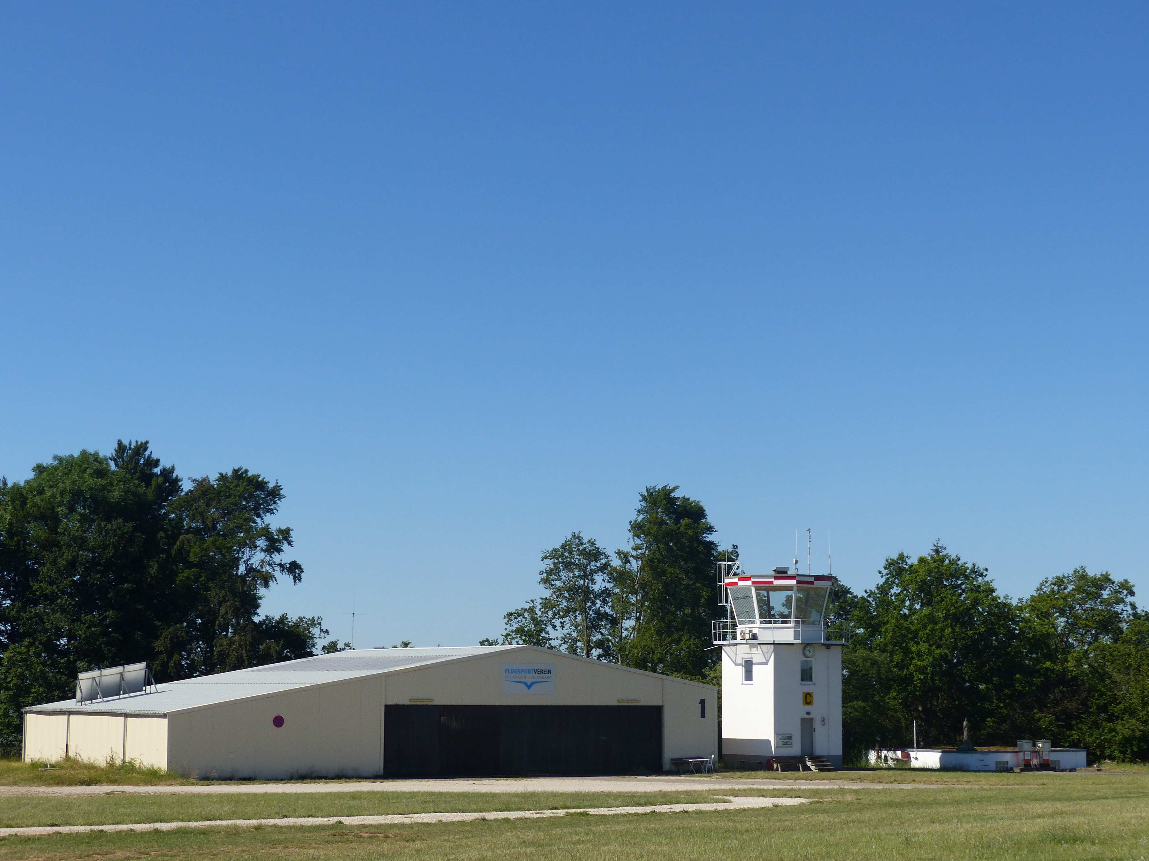 The operating buildings of the Airfield Hetzleser Berg, a special airfield northeast of Erlangen.